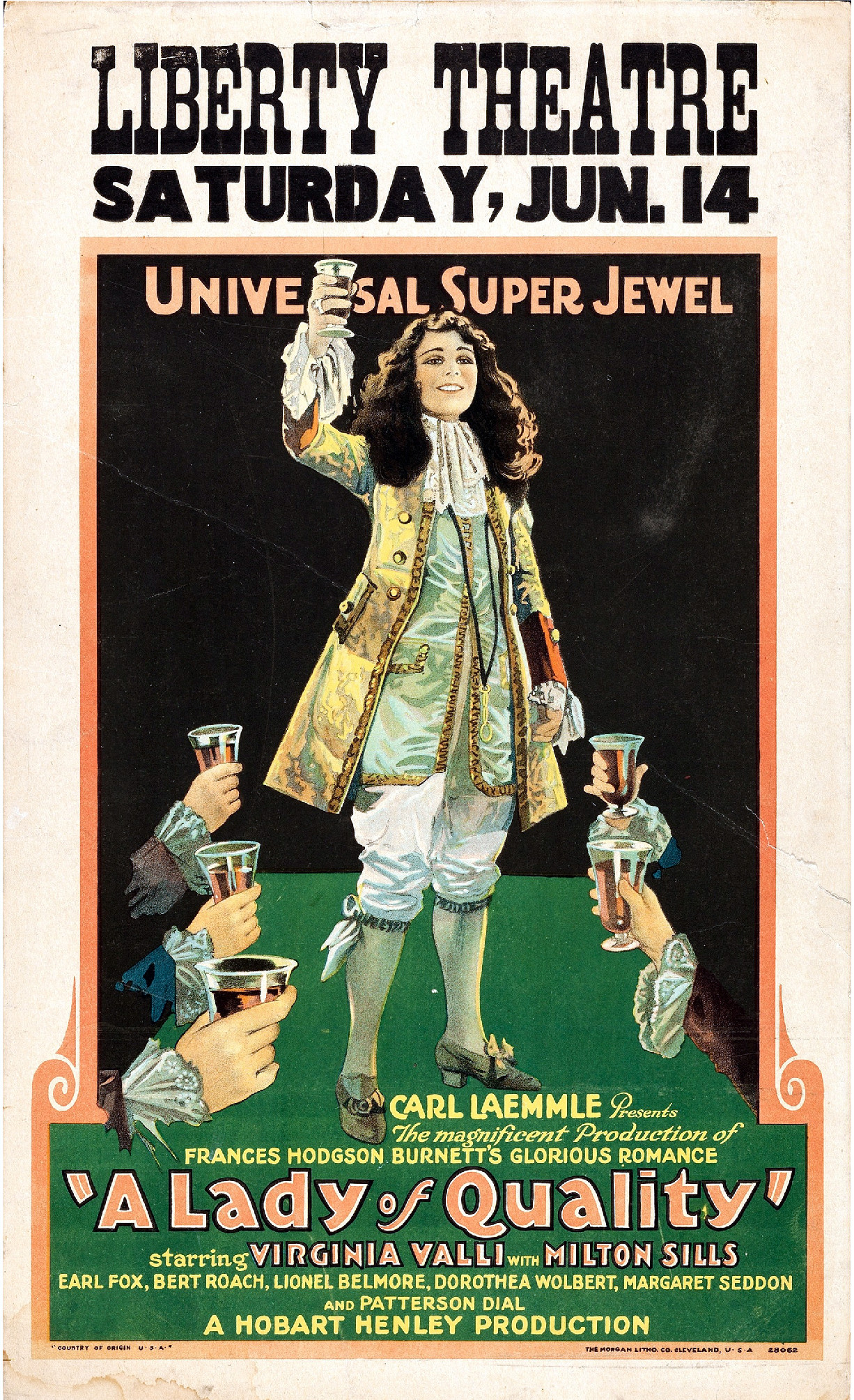 Window poster for the American drama film A Lady of Quality (1924).